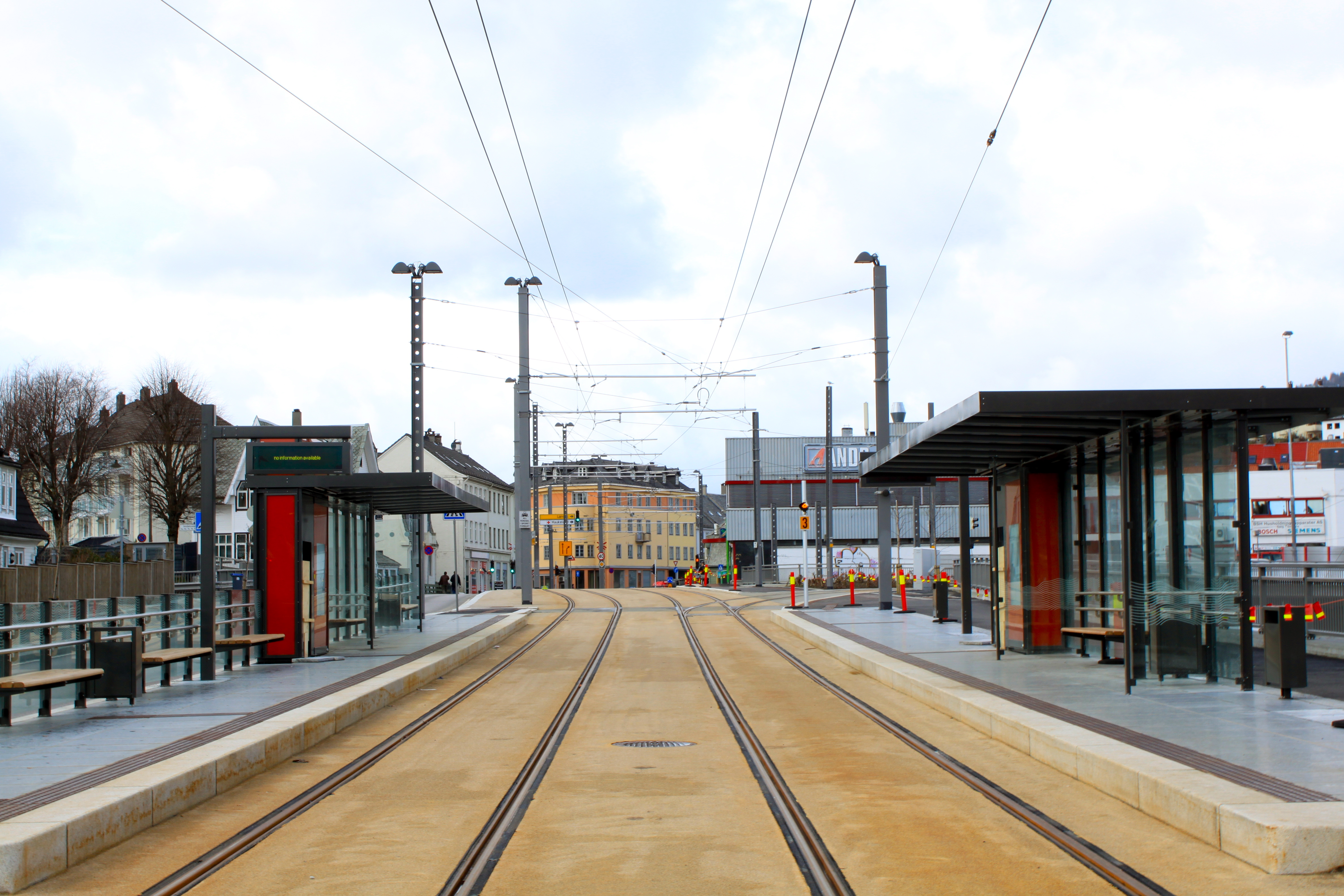 Kronstad station looking toward north